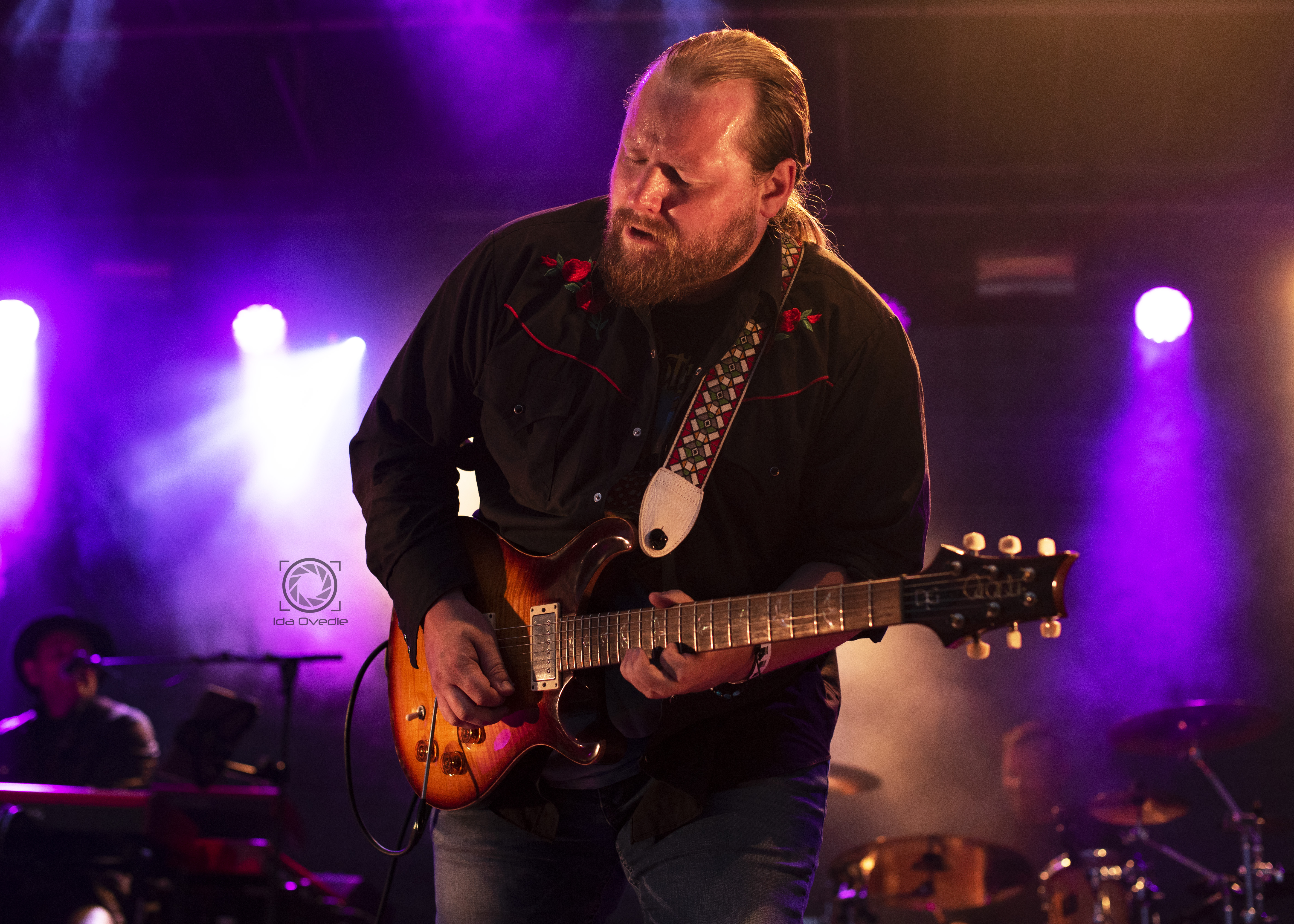 This is a picture of Mats Nerli. He is a vocalist, guitarist and songwriter. He is the frontman of the norwegian band Nerli There.